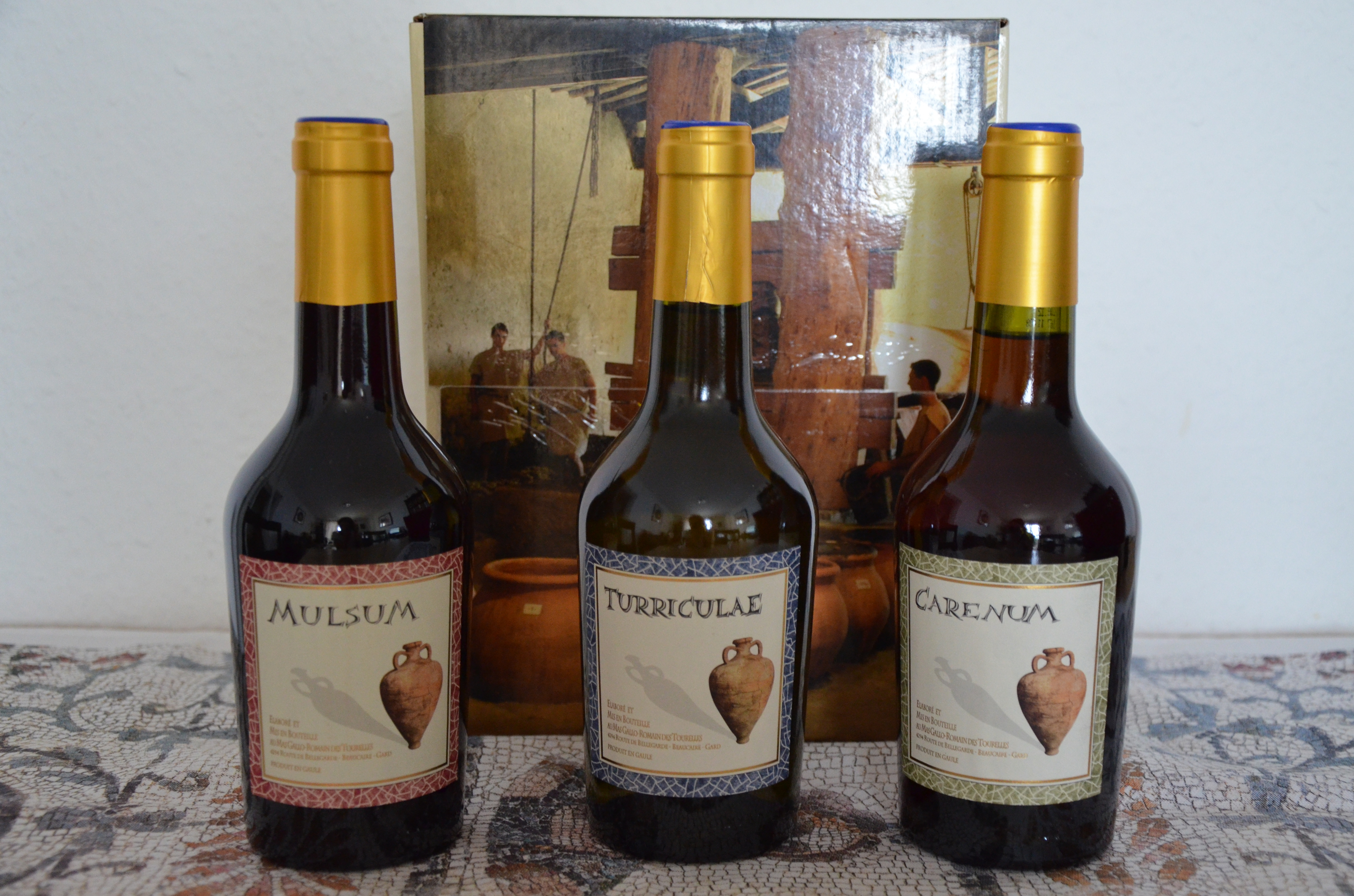 You can buy it here